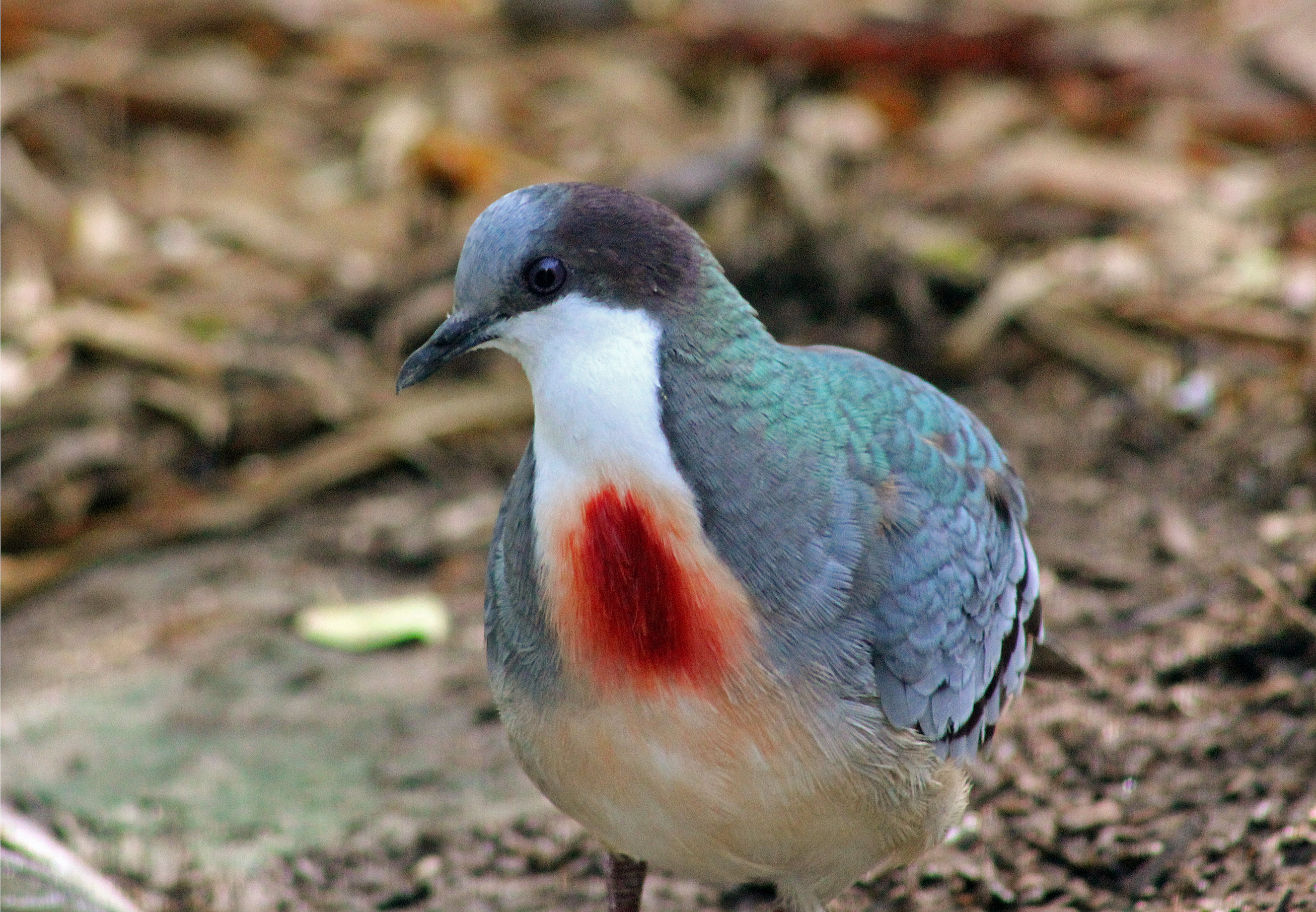 FIELD MARKS-Description: The name 'bleeding-heart' comes from the patch of red on the breast of these birds. Otherwise they are grey above and paler buff below. Bleeding-heart doves live only in the Philippines.